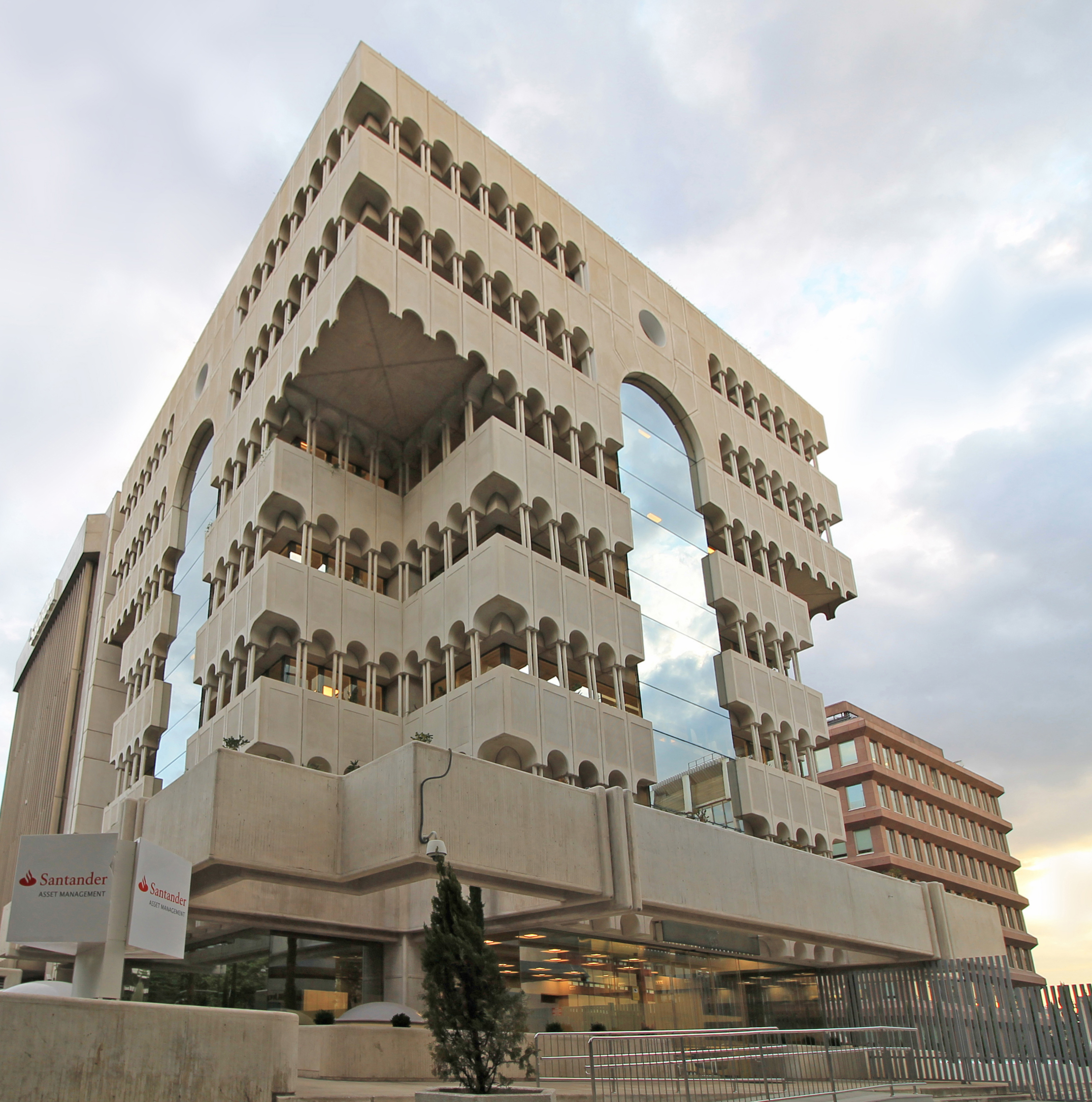 Office building at 69 Calle de Serrano (street) in Madrid (Spain).